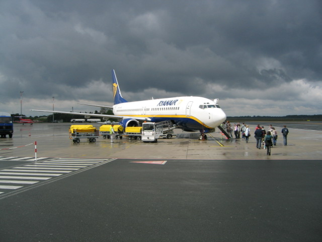 RyanAir Boeing 737-800 at Eindhoven Airport